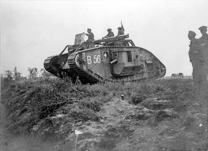 The Hundred Days Offensive, August-november 1918 A British Mark V tank (B56, 9003) of the 2 Battalion, Tank Corps leaving for an attack at Lamotte-en-Santerre, 8 August 1918.